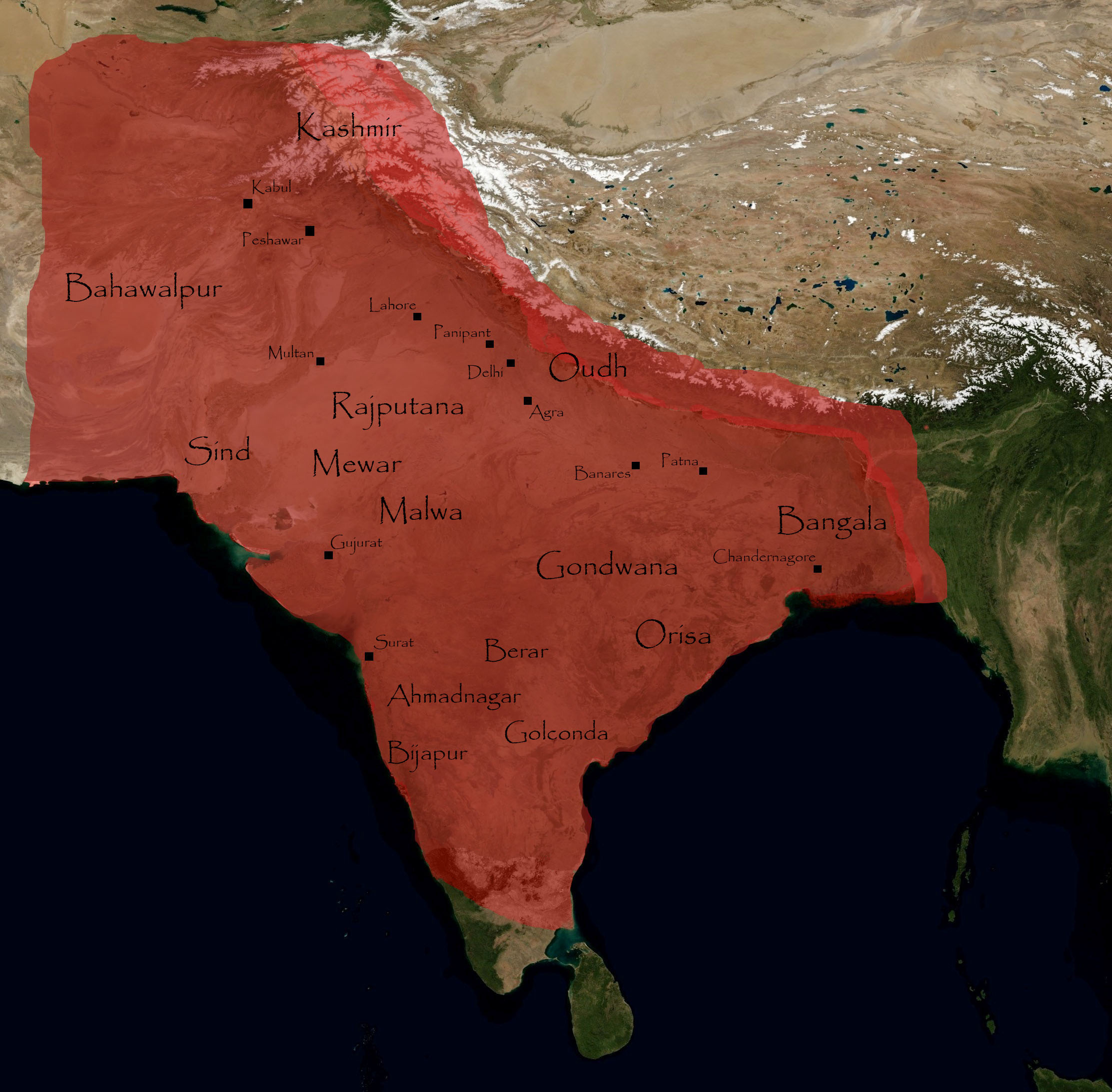 The Mughal Empire at its greatest extent ca. 1707